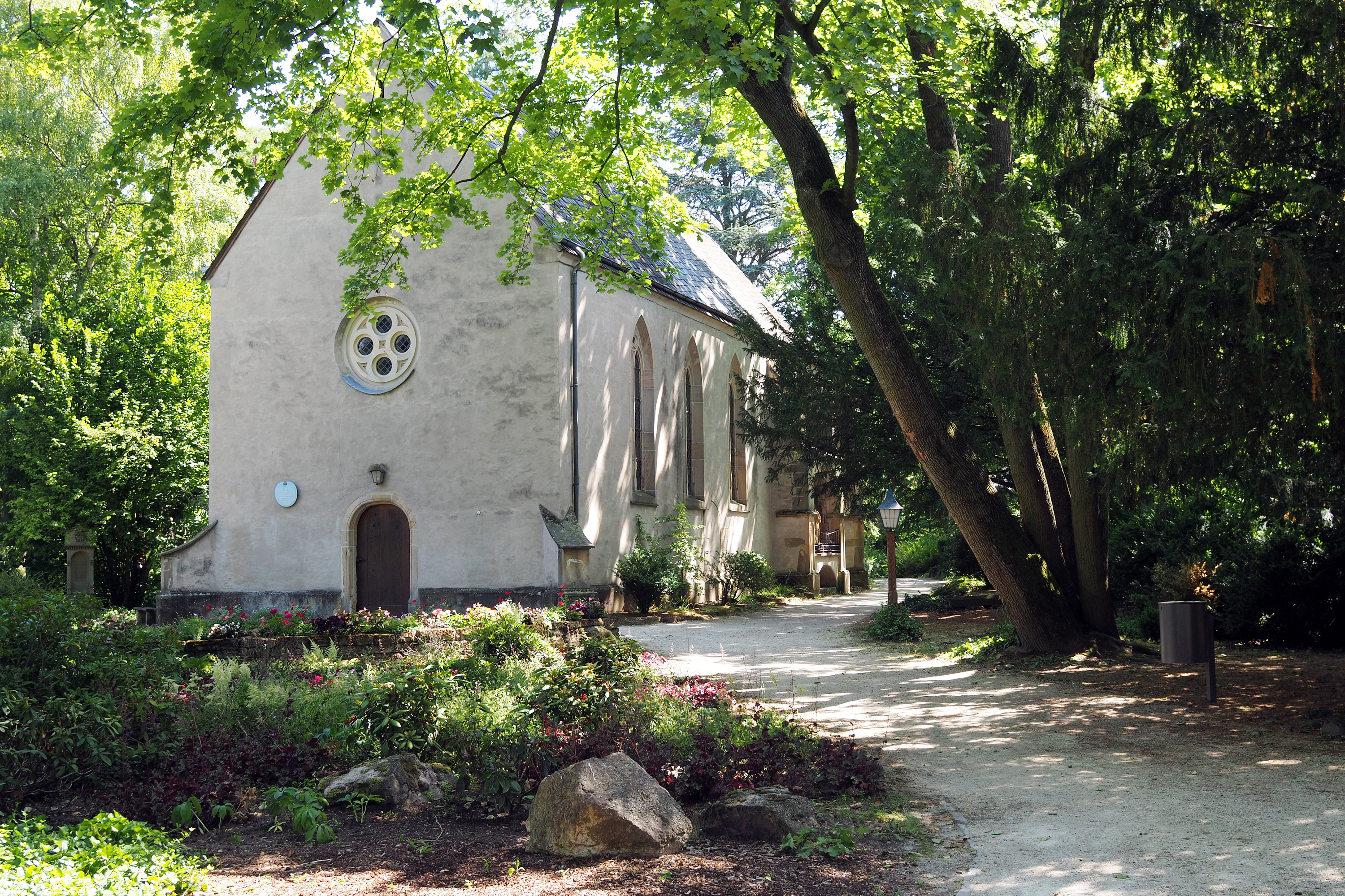 Adenauer Park Speyer